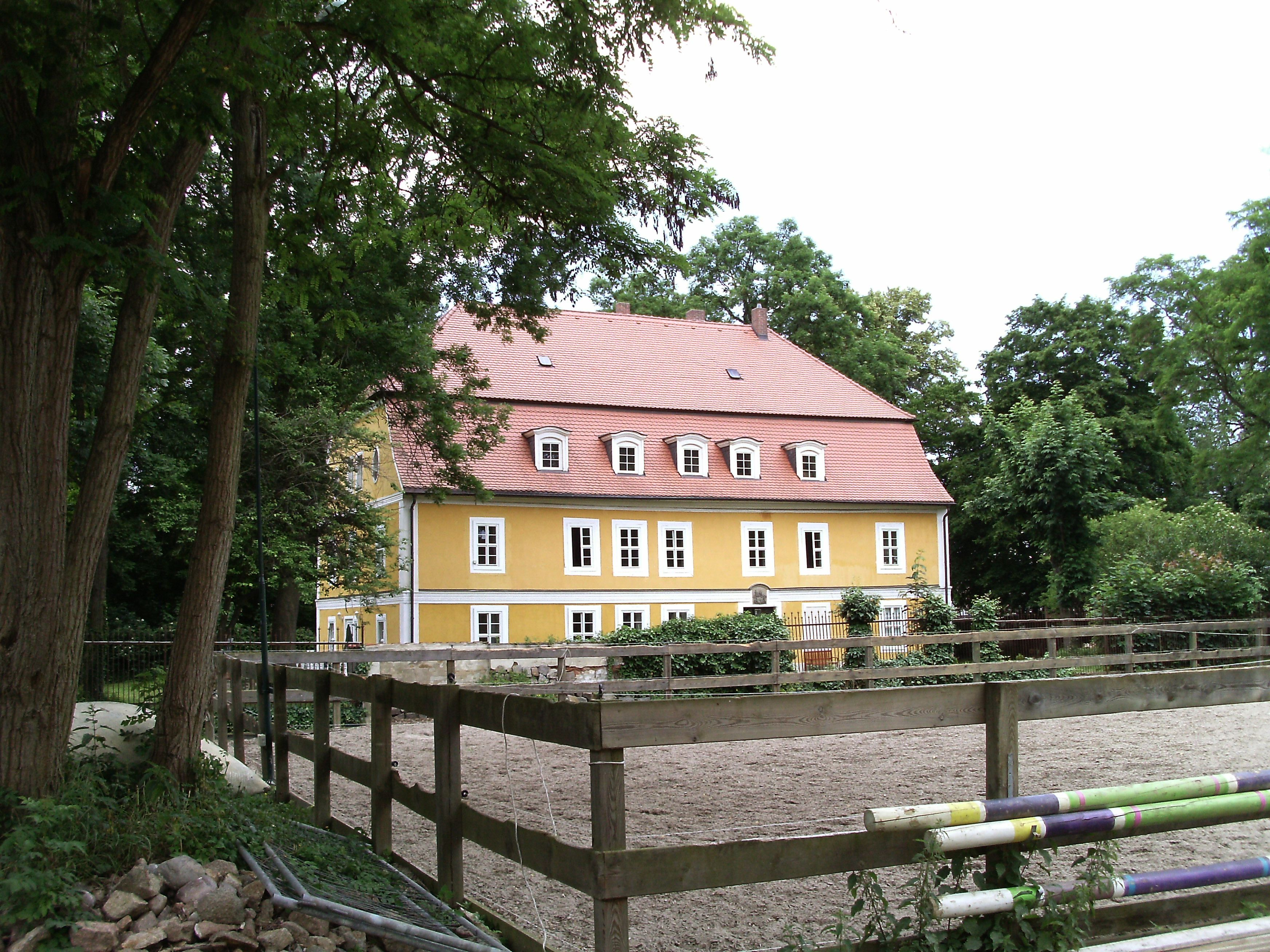 Manor house of Gollma estate (Landsberg, district of Saalekreis, Saxony-Anhalt)